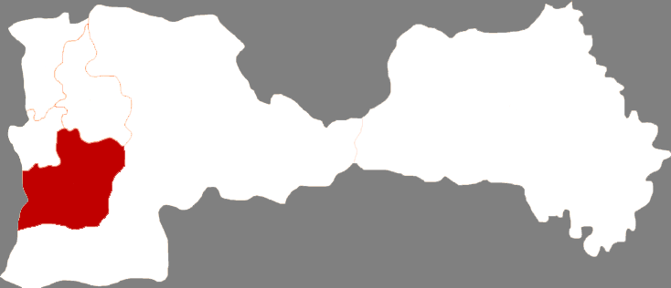 Location of Nanfen district in Benxi City, China